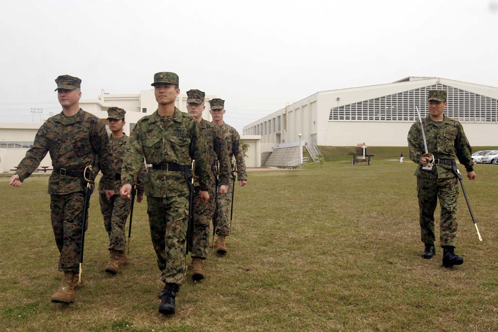 Japanese Ground Self Defense Force Sgt. Tatsuya Kai leads a detail during a Corporals' Course drill practice at a field next to Gunners Fitness Center Feb. 26. Kai is an inscription specialist with 8th Division, 8th Anti-Aircraft Artillery Battalion, Western Army. (Photo by Lance Cpl. Aaron Hostutler).